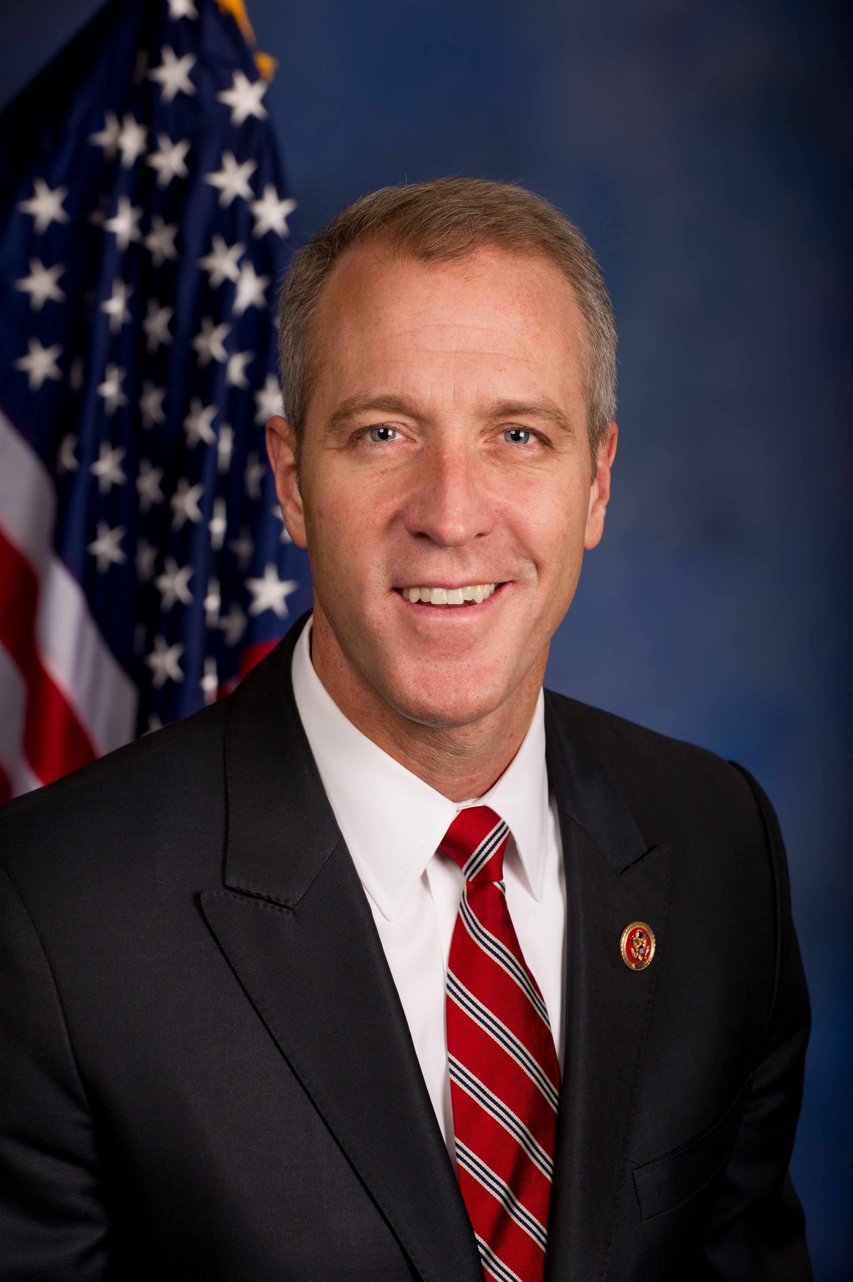 Congressman Sean Maloney, 2013